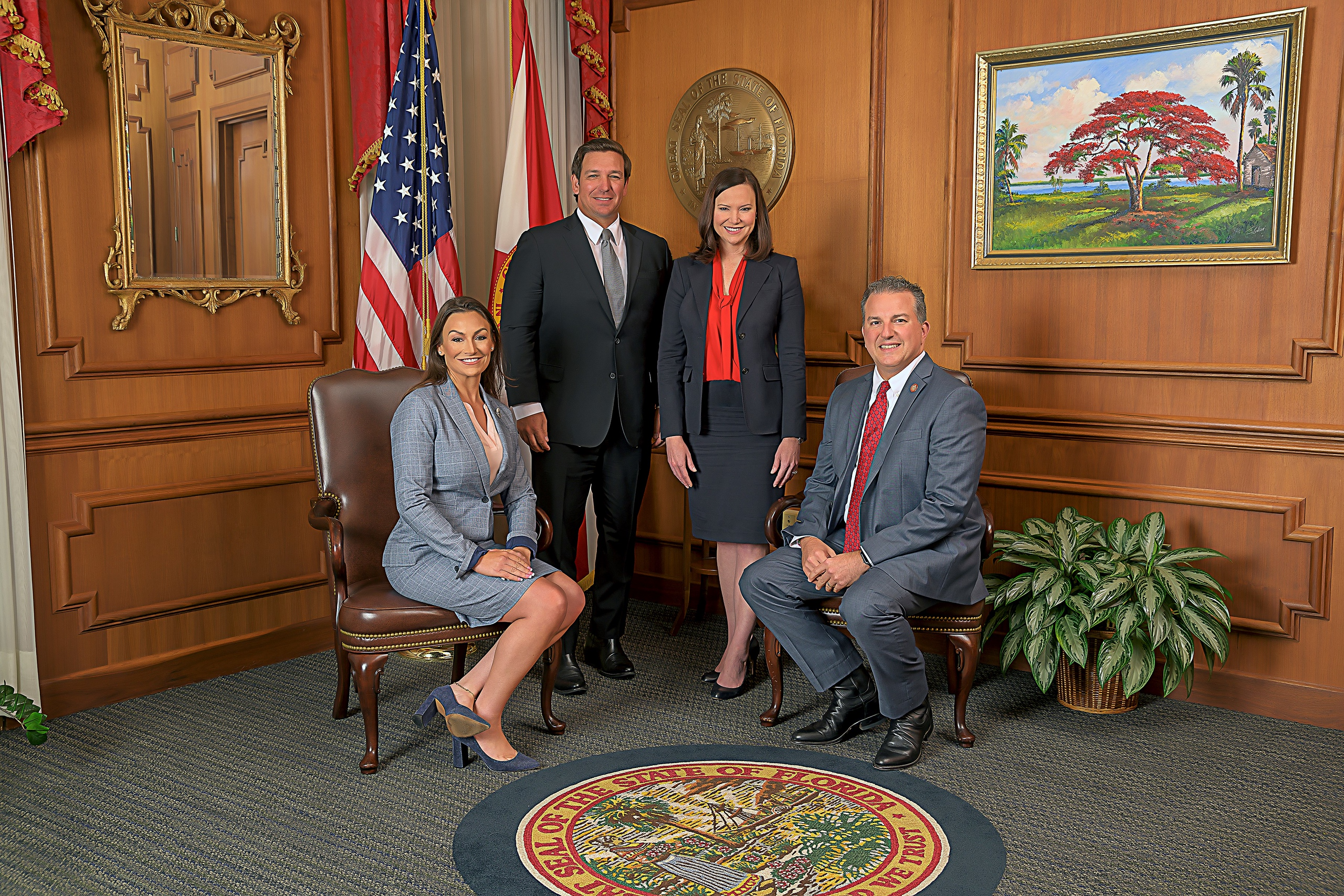 The Cabinet of the Florida government consists of Governor Ron DeSantis, Attorney General Ashley Moody, Chief Financial Officer Jimmy Patronis, and Agriculture Commissioner Nikki Fried.